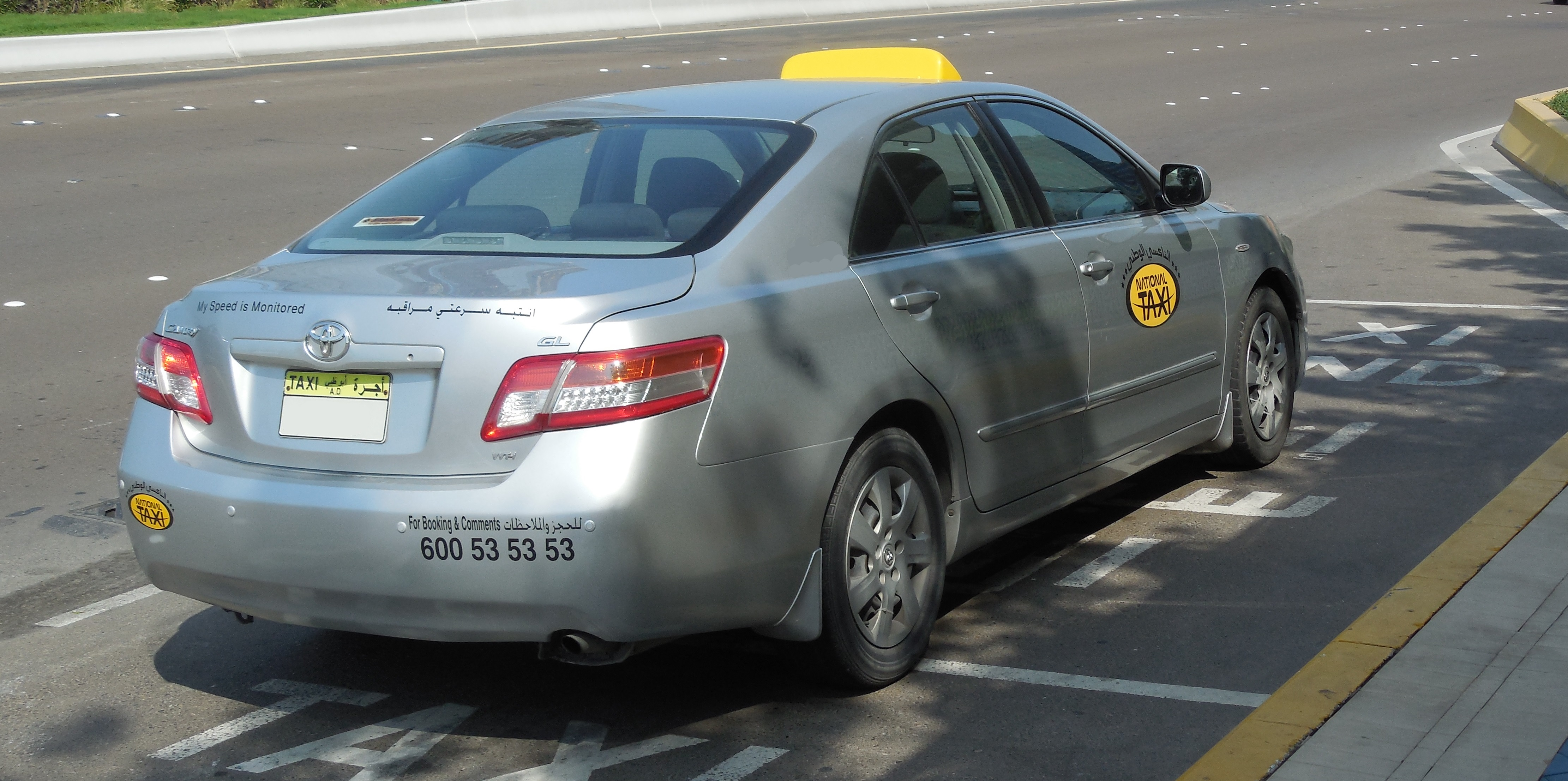 A taxi in Abu Dhabi, UAE